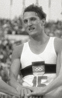 Left-right: Armin Hary, Martin Lauer, Bernd Cullmann, Walter Mahlendorf at the 1960 Olympics